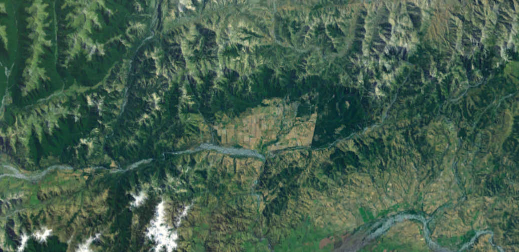 Satellite photo of the Hanmer Basin, South Island, New Zealand